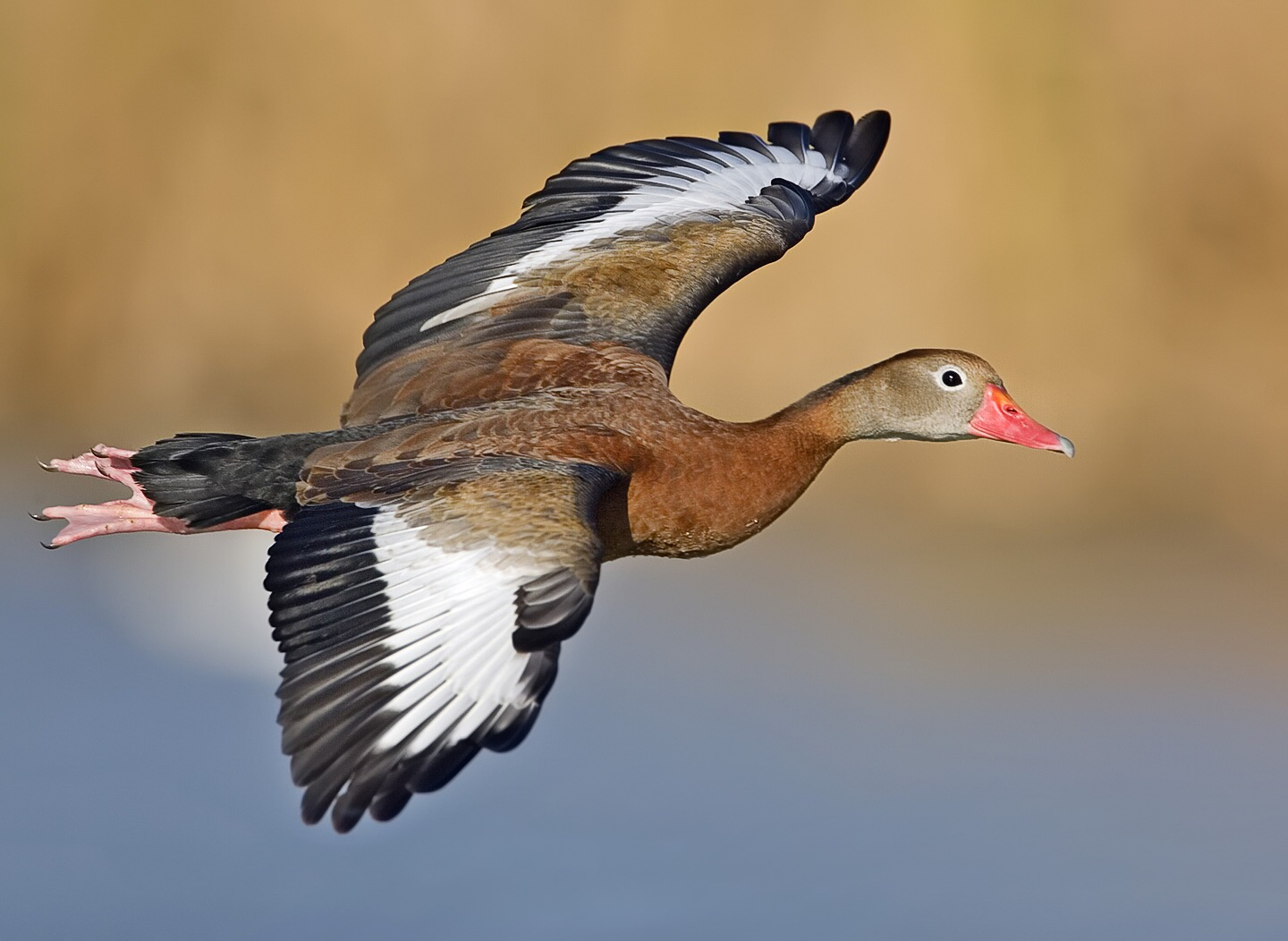 Black-Bellied Whistling Duck, Birding Center, Port Aransas, Texas